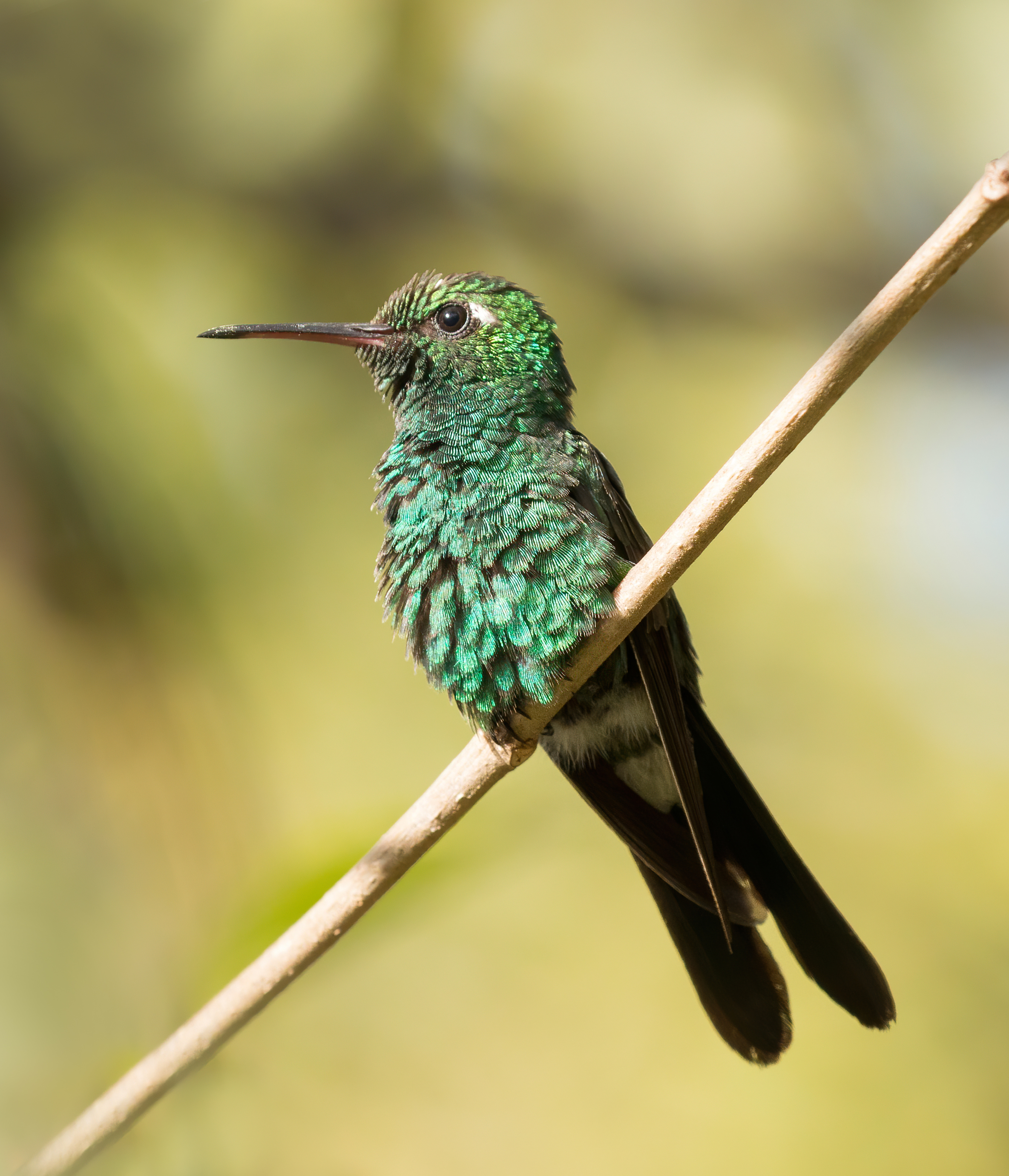 Cuban emerald (Chlorostilbon ricordii ricordii) male, Cuba